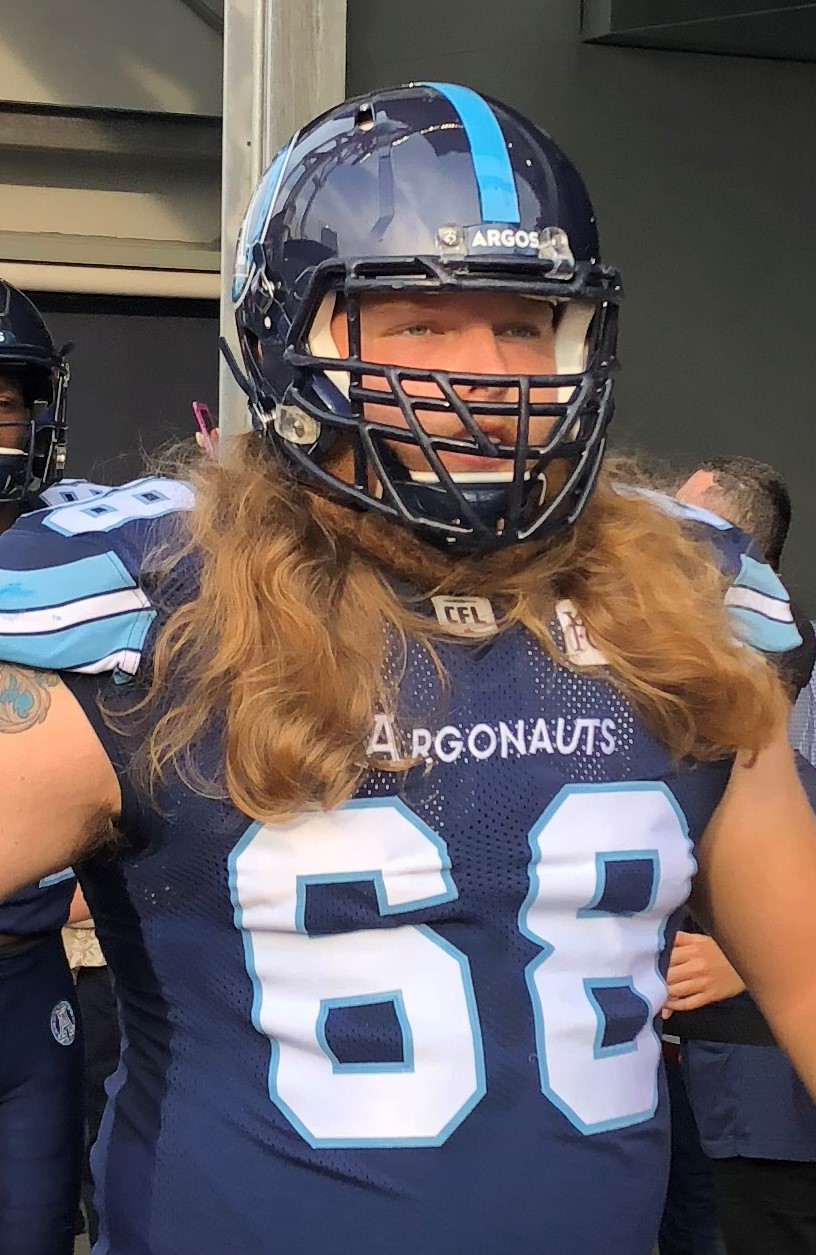 Chris Kolankowski, Offensive Lineman for the Toronto Argonauts.